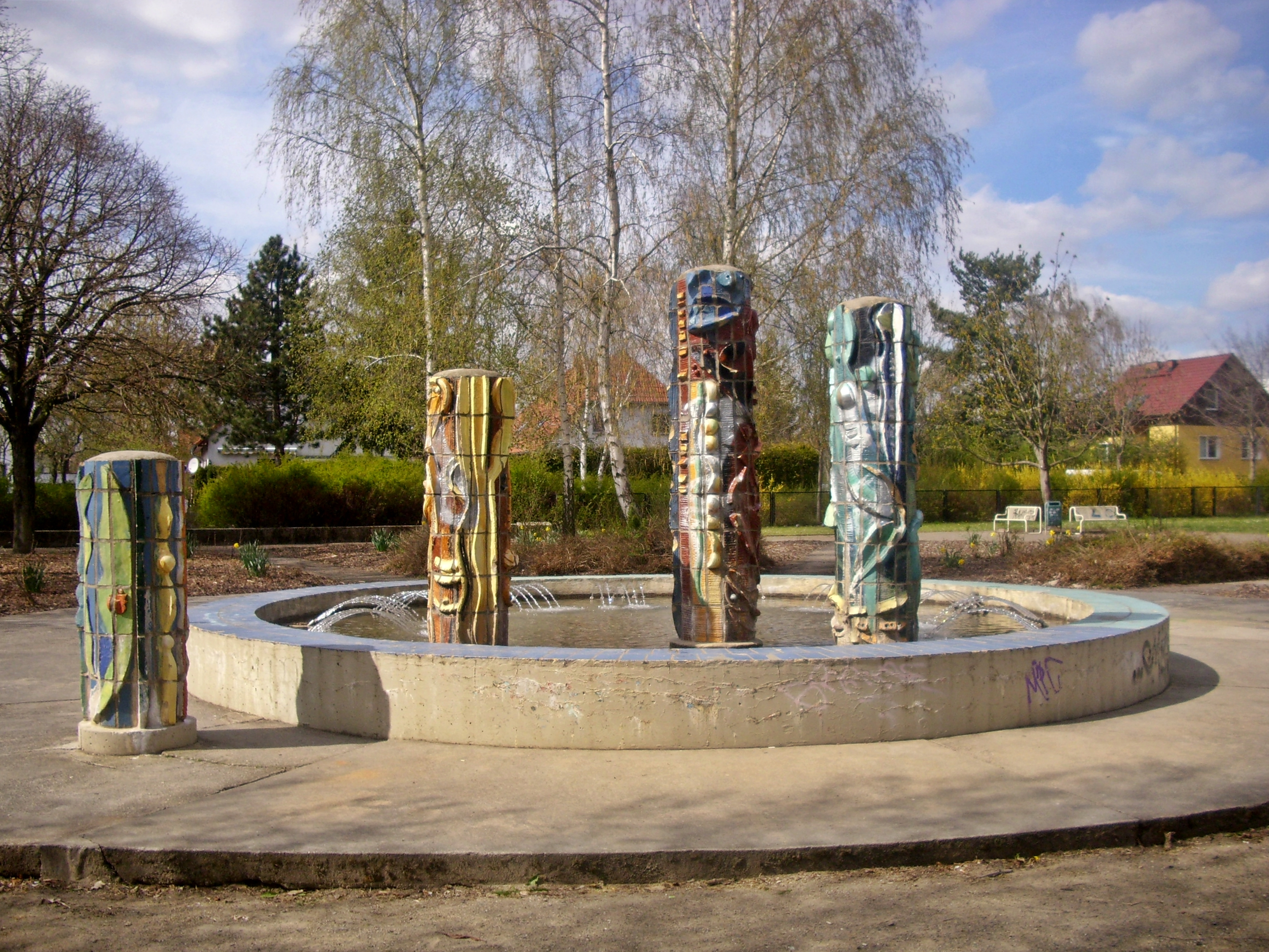 Dance of Youth (Fountain)